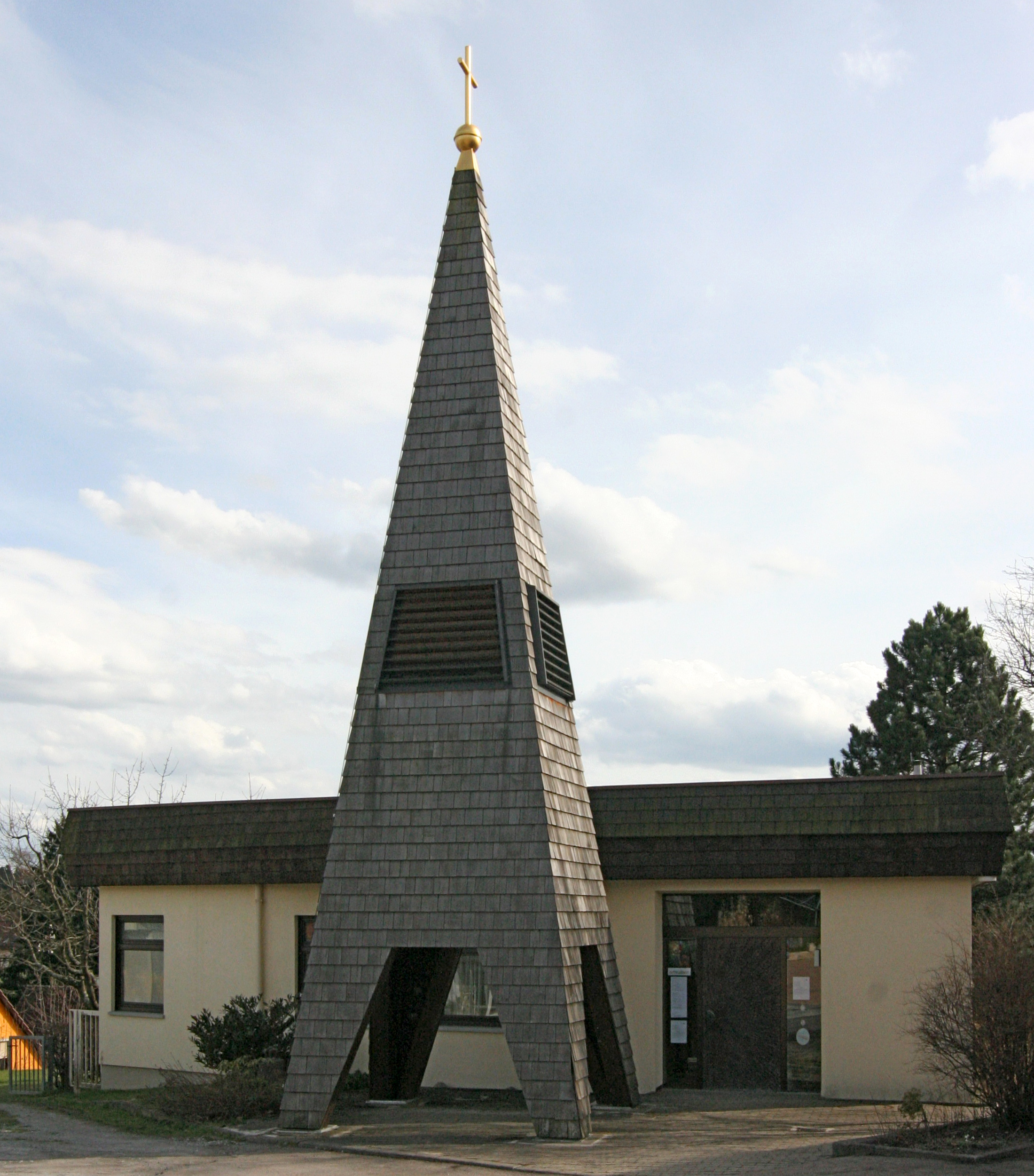 The protestant church in Wüstenrot-Finsterrot